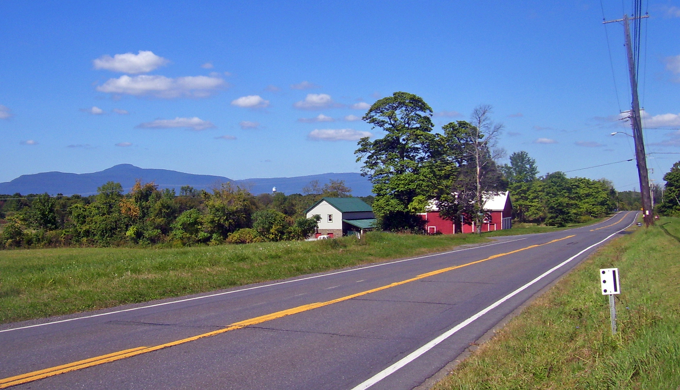 View toward Catskill Escarpment from NY 9G north of Tivoli, NY, USA, within the Hudson River Historic District